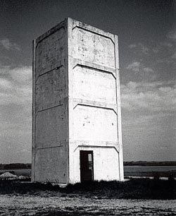 US Naval Ordnance Testing Facility Observation Tower No. 2 Photo from the National Register of Historic Places collection This image or media file contains material based on a work of a National Park Service employee, created as part of that person's official duties. As a work of the U.S. federal government, such work is in the public domain. See the NPS website and NPS copyright policy for more information. Object location34° 22′ 53″ N, 77° 36′ 47″ W